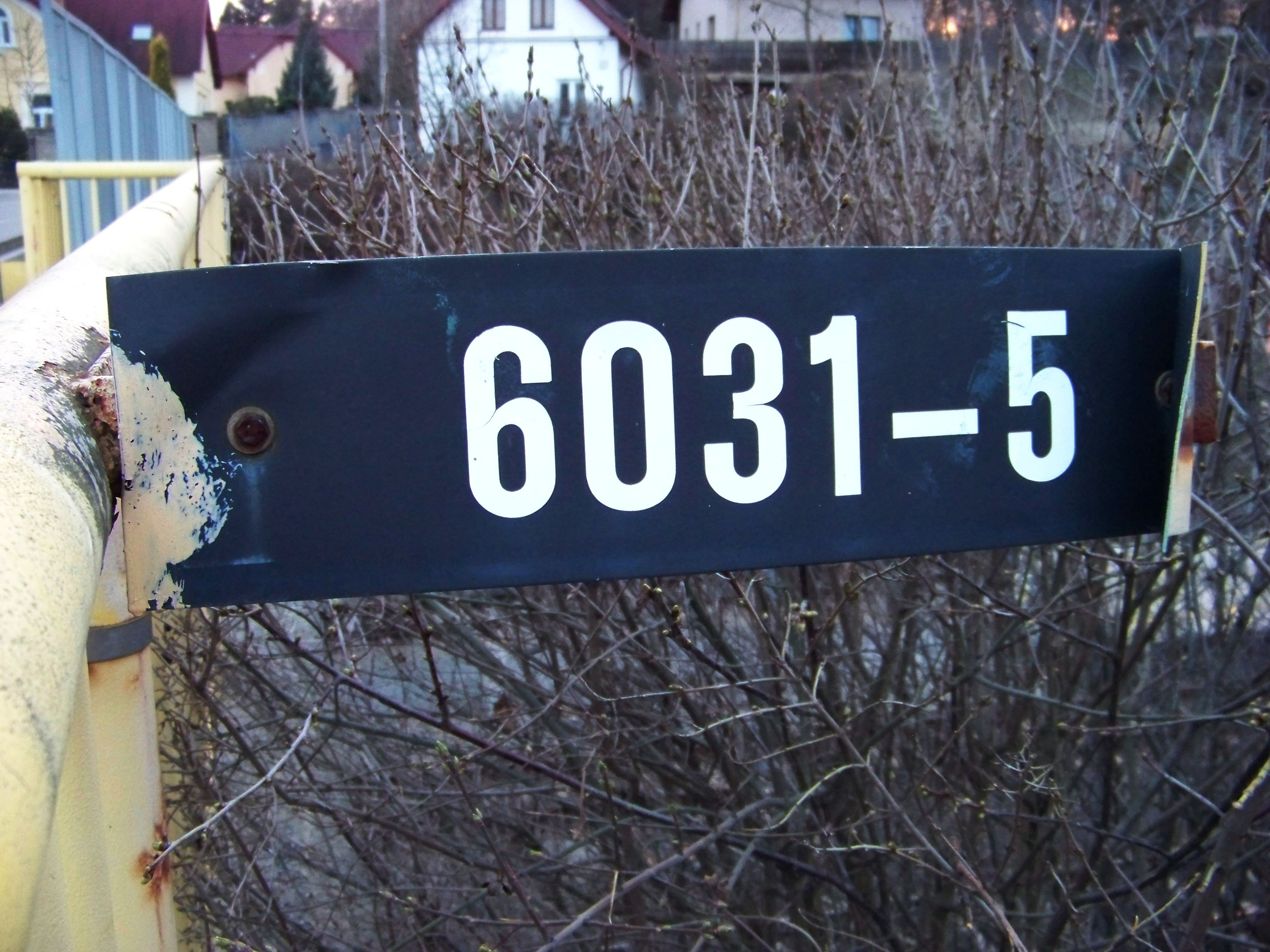 Senohraby, Prague-East District, Central Bohemian Region, the Czech Republic. Hlavní street, a bridge number.